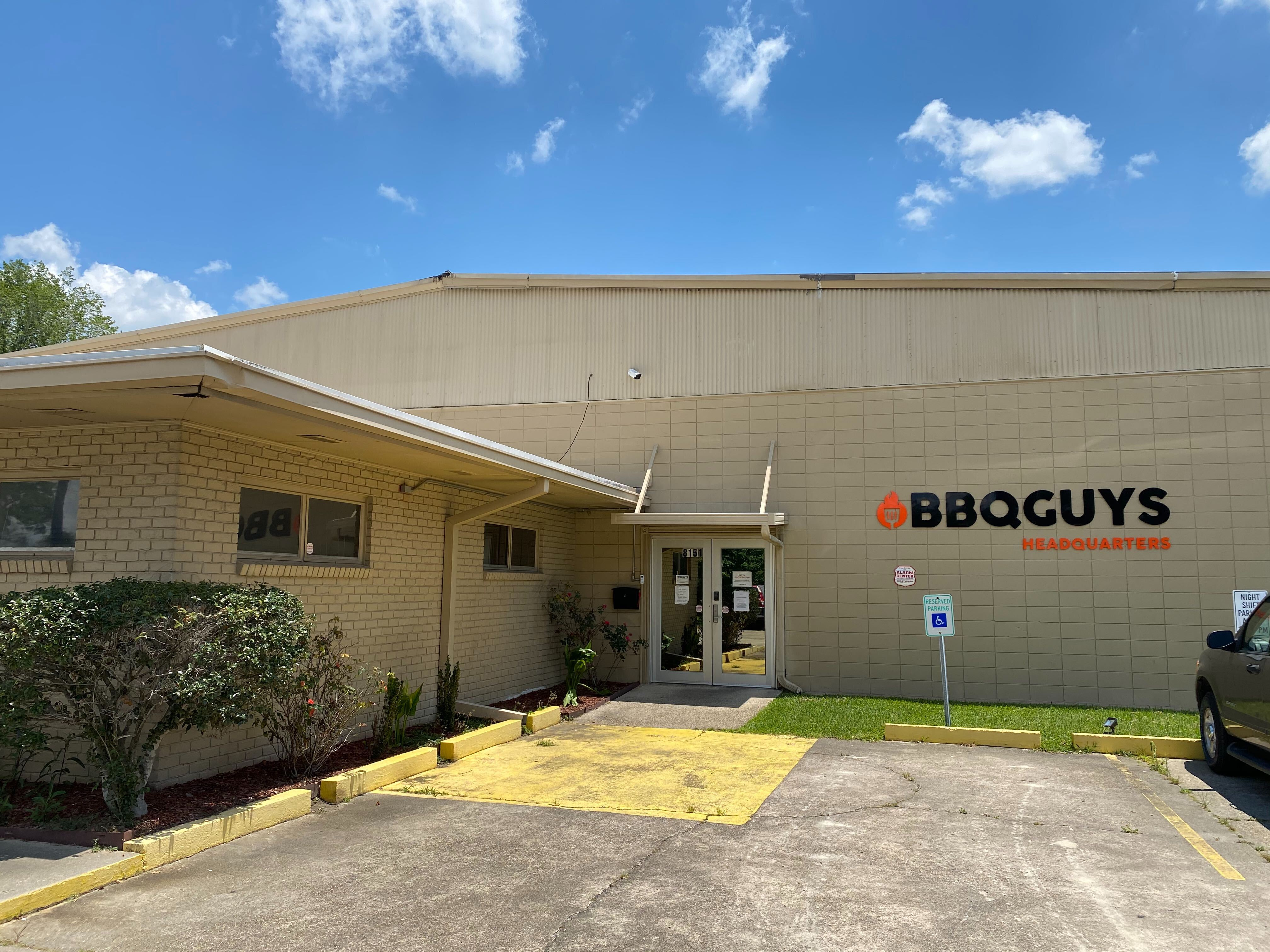 This is a photo of the BBQGuys warehouse.